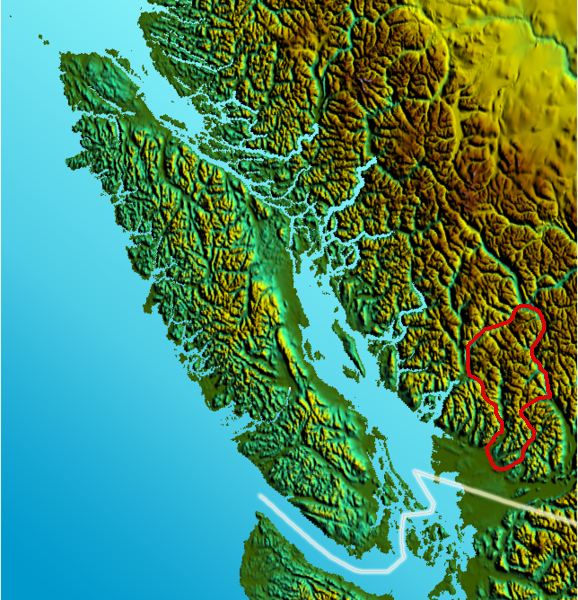 adapted from img in Wikimedia Commons :Image:708px-South_BC-NW_USA-relief.png